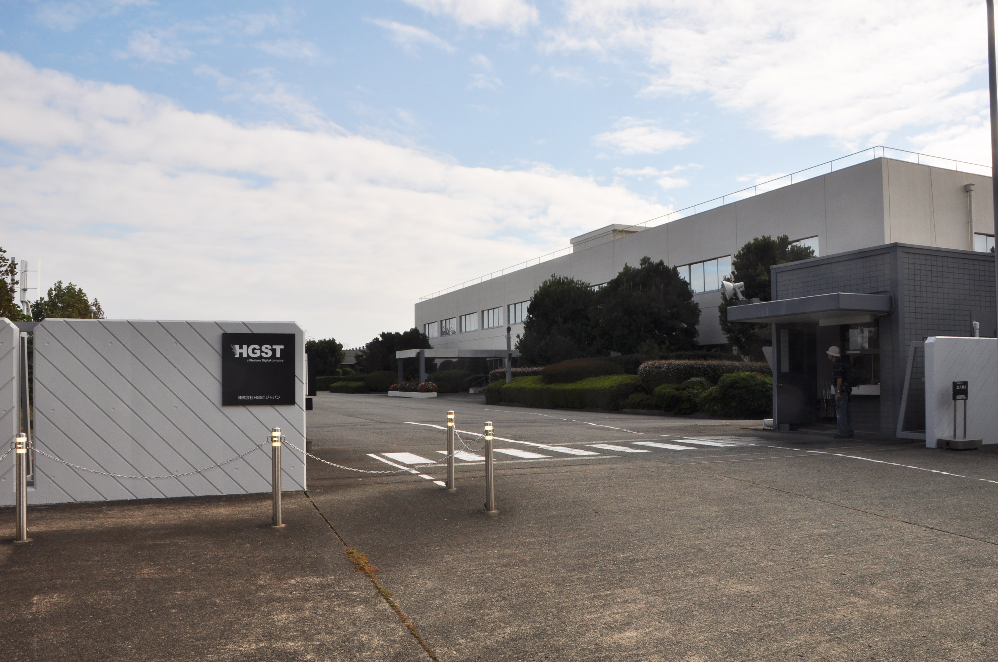 Fujisawa Plant, HGST Japan.